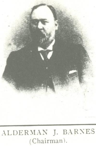 Alderman J. Barnes, chairman of Gillingham F.C. from 1902 until 1912.